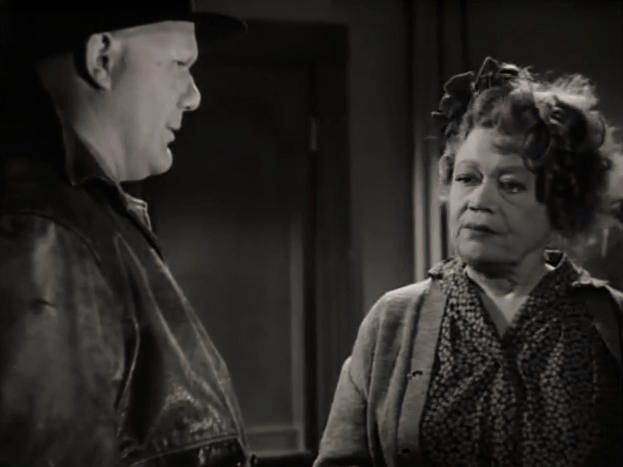 Dick Wessell & Esther Howard in Dick Tracy vs. Cueball - cropped screenshot